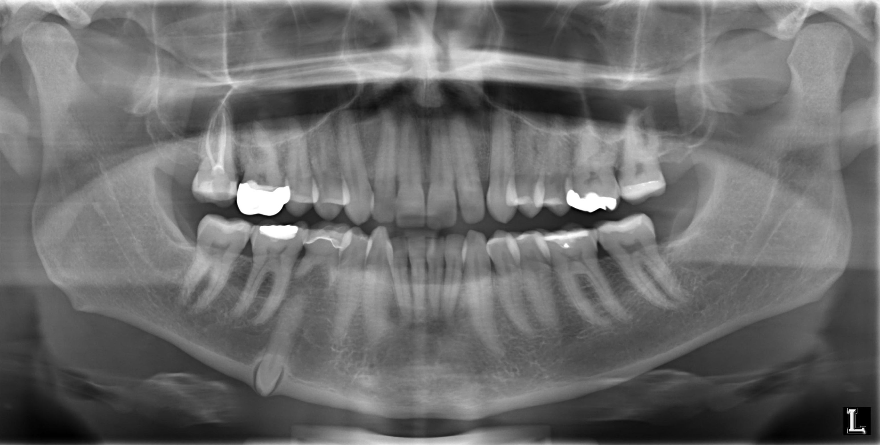 This panoramic radiography illustrates a very rare condition: the dental arch of a 37 years old man who has both a remaining lower right second premolar milk-tooth and, underneath it, a permanent, impacted inverted second premolar which pierces the jaw's lower right portion. The patient is asymptomatic for more than a decade and the impacted tooth is healthy, stable, still and not weakening the surrounding mandibular bone. Thus, a surgical intervention was ruled out.